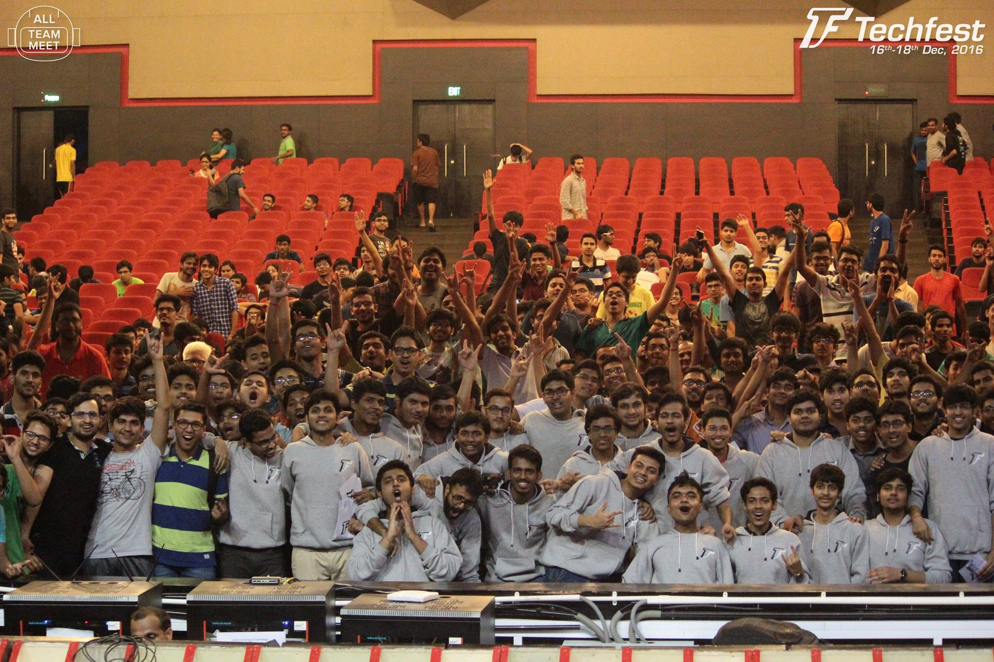 All Team Meet of Techfest 2016-2017